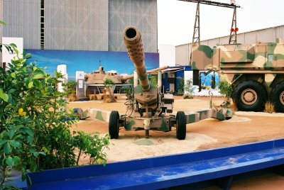 Denel G7 howitzer Photograph taken by Darren Olivier